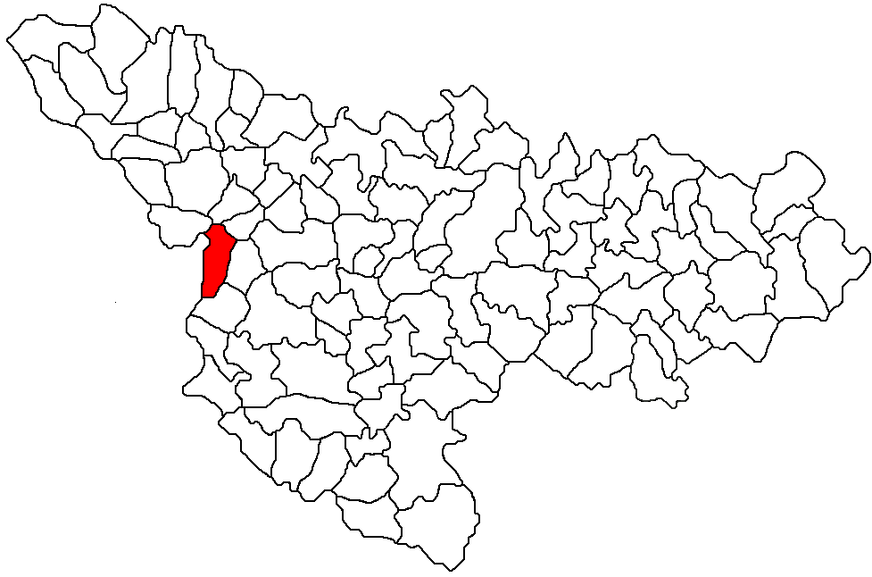 Locator map of the commune of Checea, Timiș County Romania